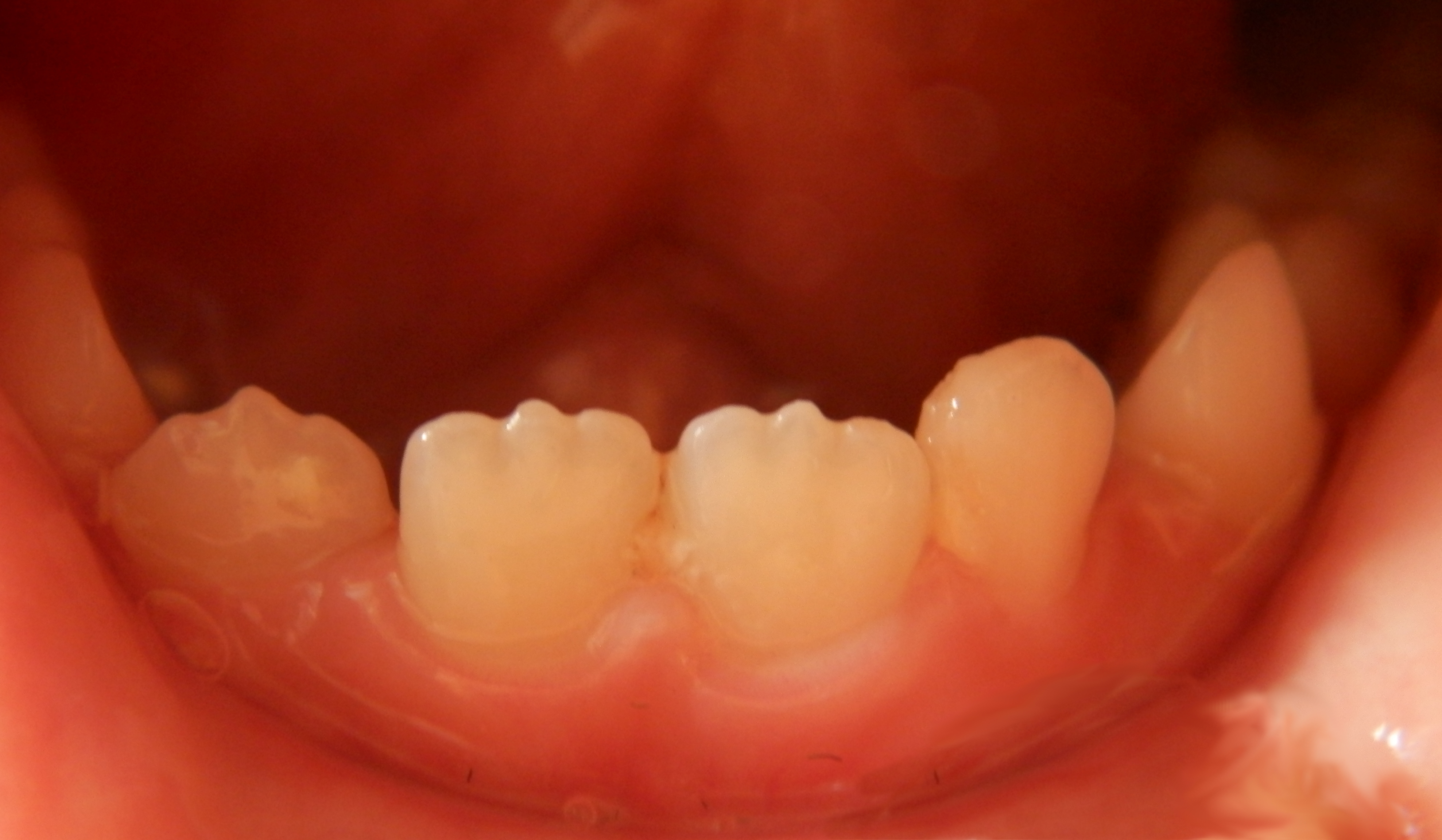 Mamelons on the incisal edges of newly erupted incisors. They are evident on both permanent central incisors and on the right lateral incisor of this 7 year old boy, but they cannot be seen on the deciduous left lateral incisor. Note: the right bottom corner of the picture was edited for aesthetics without involving the teeth.